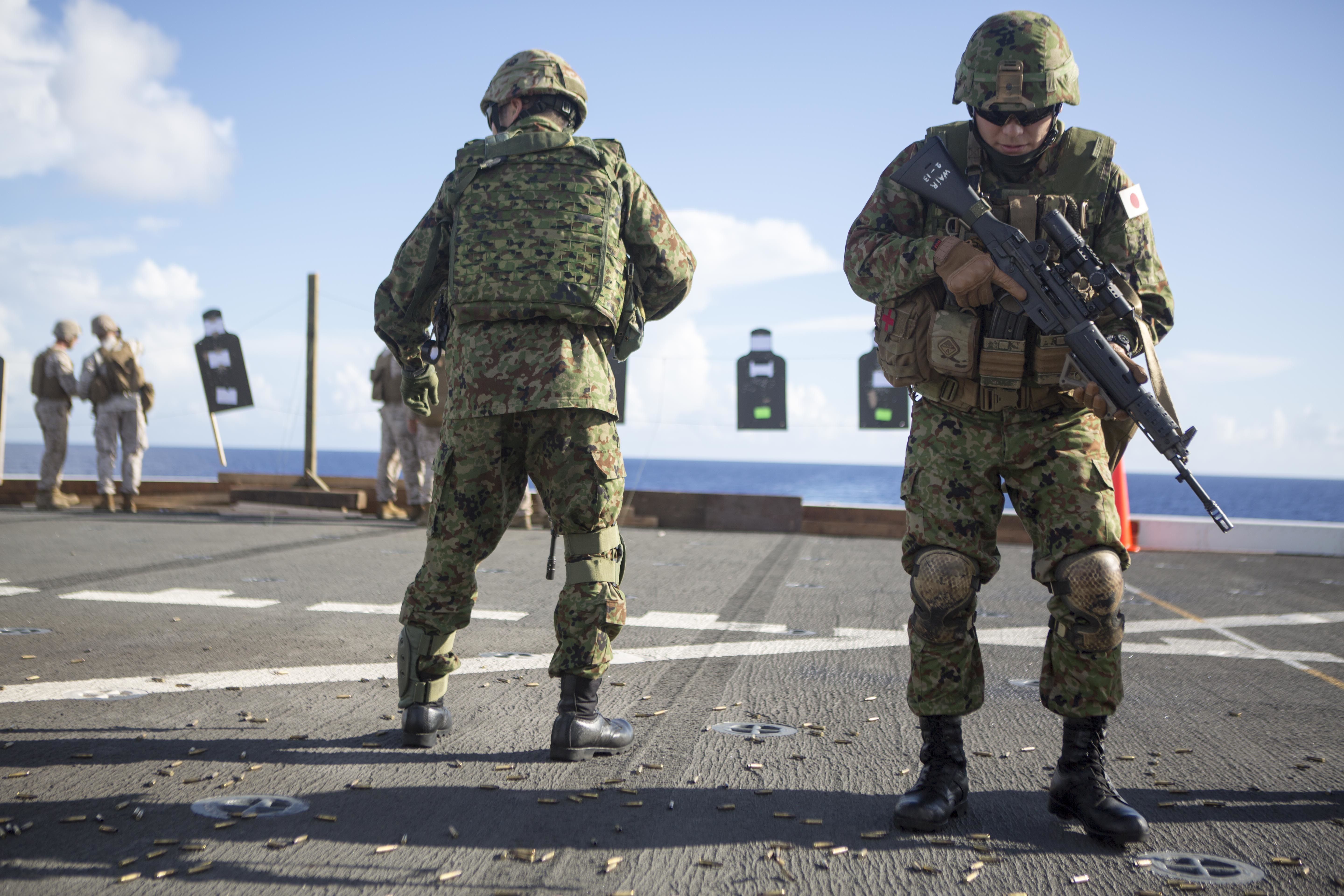 Japanese Ground Self Defense-Force soldiers with the Western Infantry Regiment prepare to conduct a live fire exercise with U.S. Marines with Company F, Battalion Landing Team 2nd Battalion, 5th Marines, 31st Marine Expeditionary Unit (MEU), on the flight deck of the USS Green Bay (LPD-20), at sea, June 16, 2015. The 31st MEU is currently conducting its annual Fall Patrol of the Asia-Pacific region. (U.S. Marine Corps photo by Lance Cpl. Brian Bekkala/Released.)